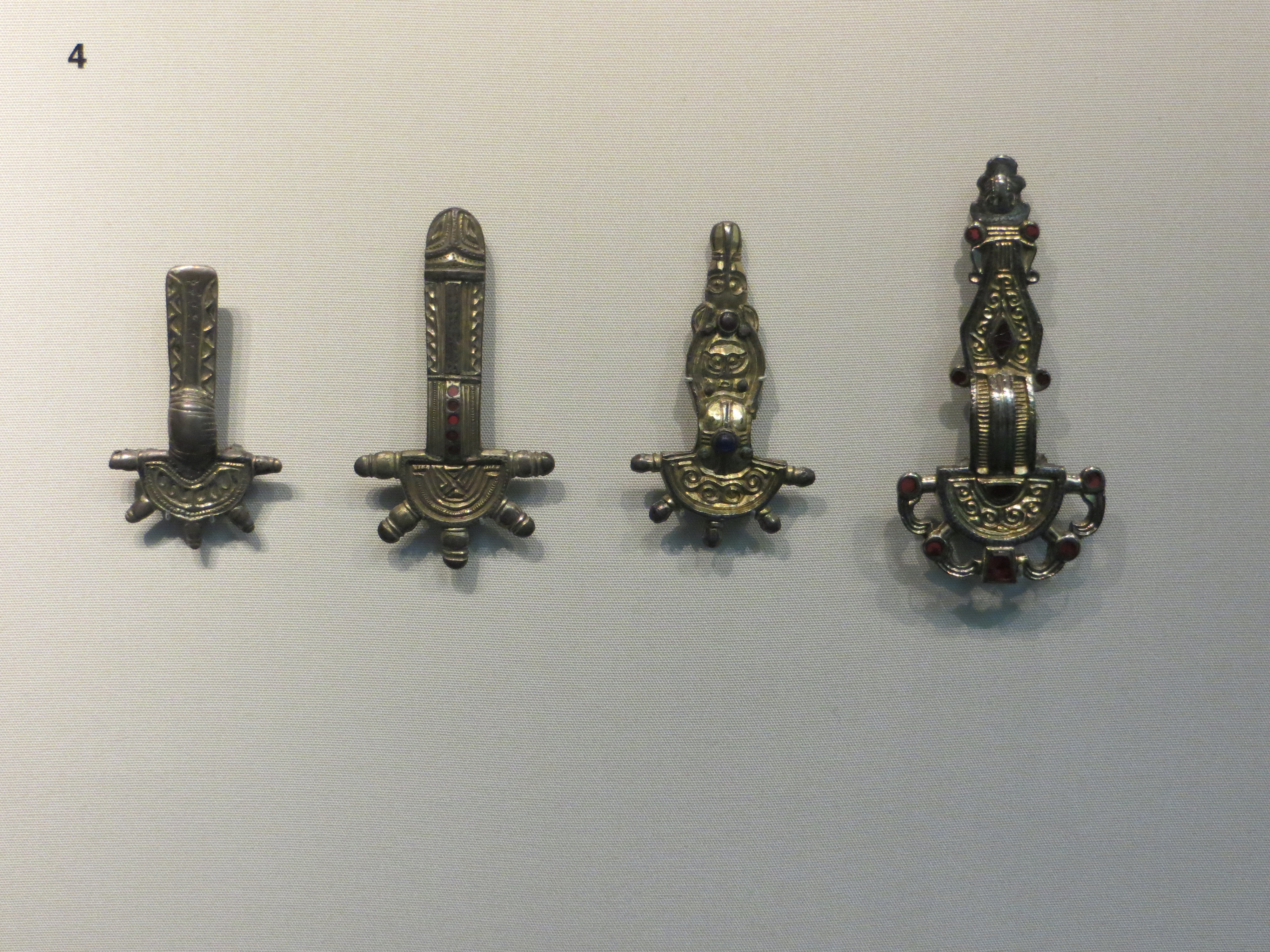 Frankish brooches in the British Museum